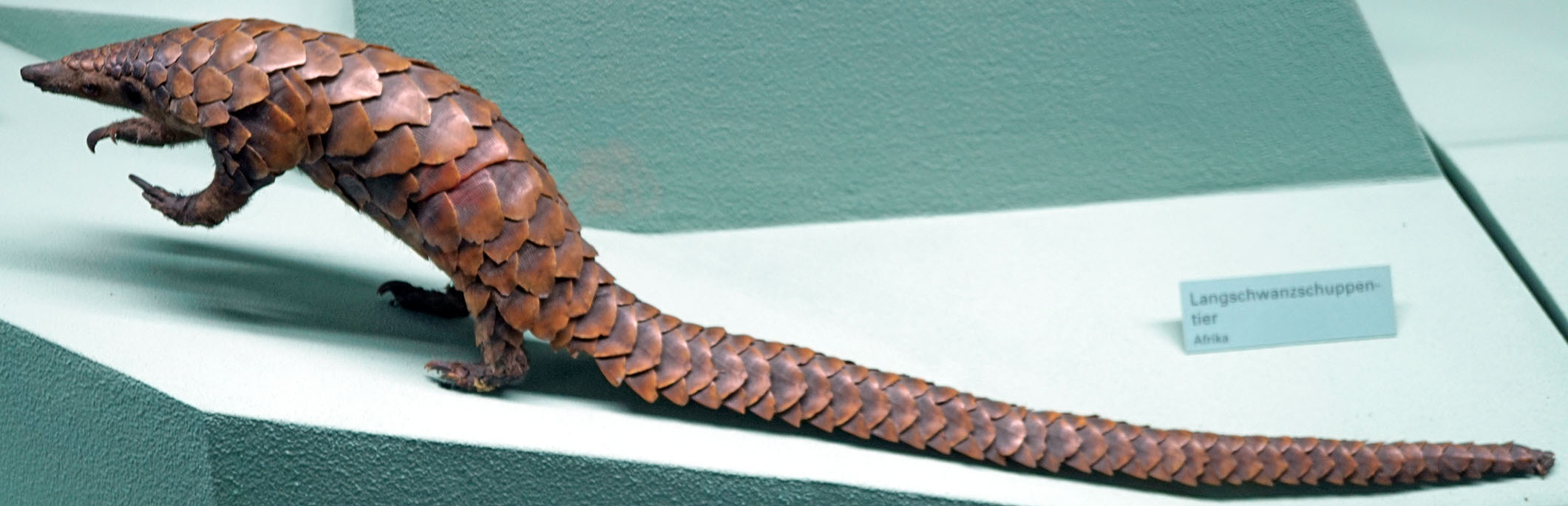 Phataginus tetradactyla in Augsburg Naturmuseum.